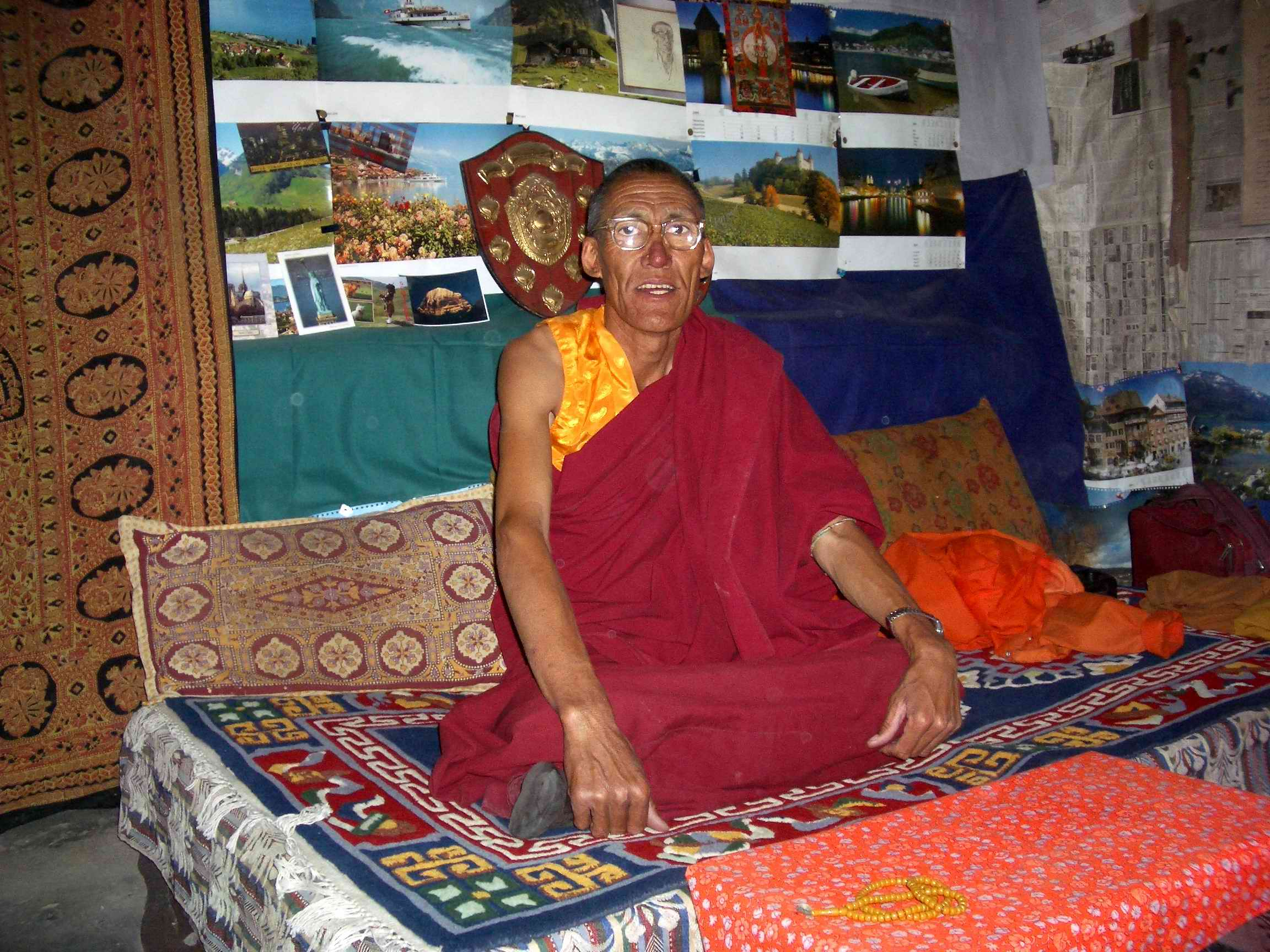 I took this photo myself in 2004